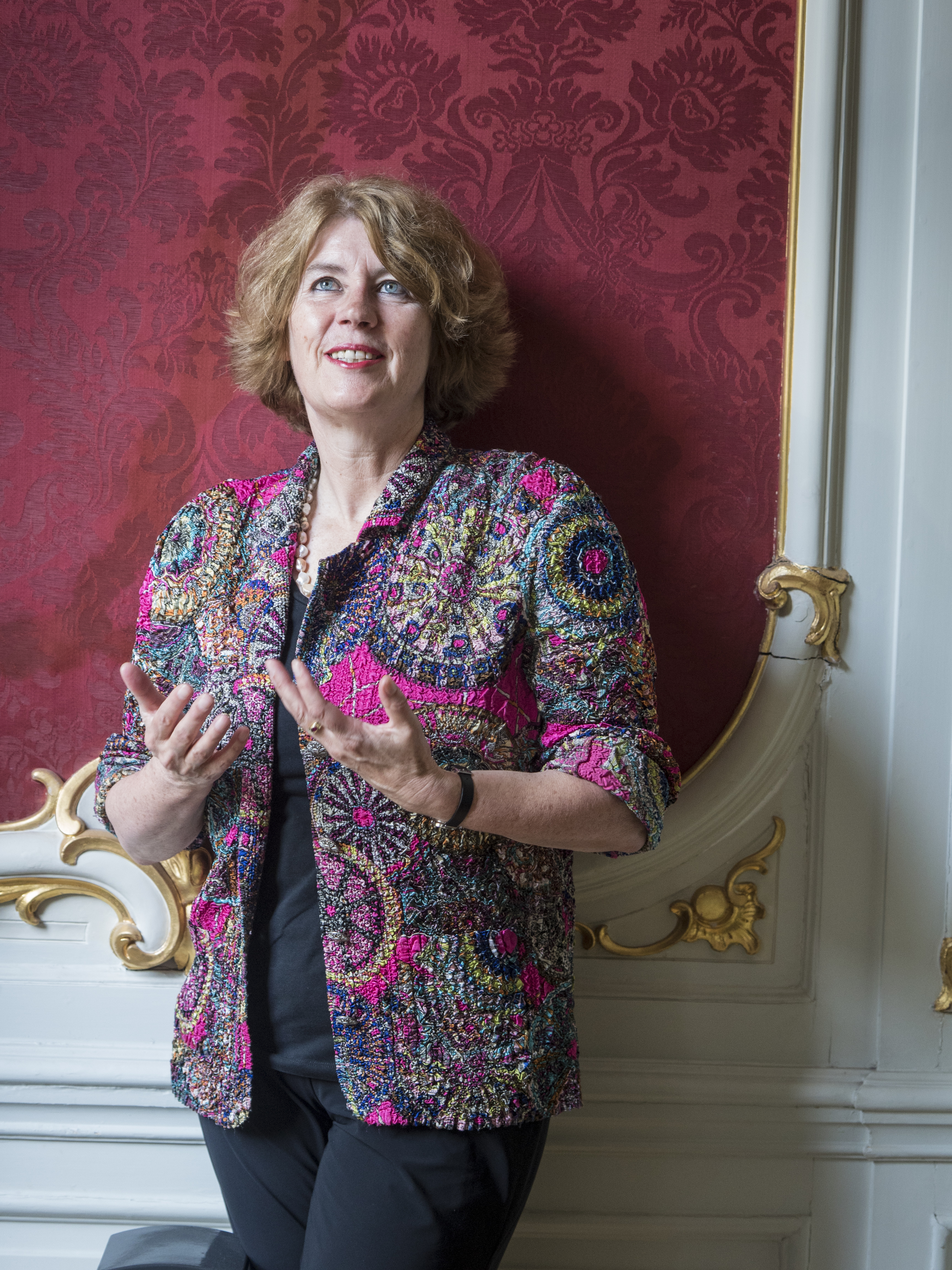 German antropologist Birgit Meyer (2015)